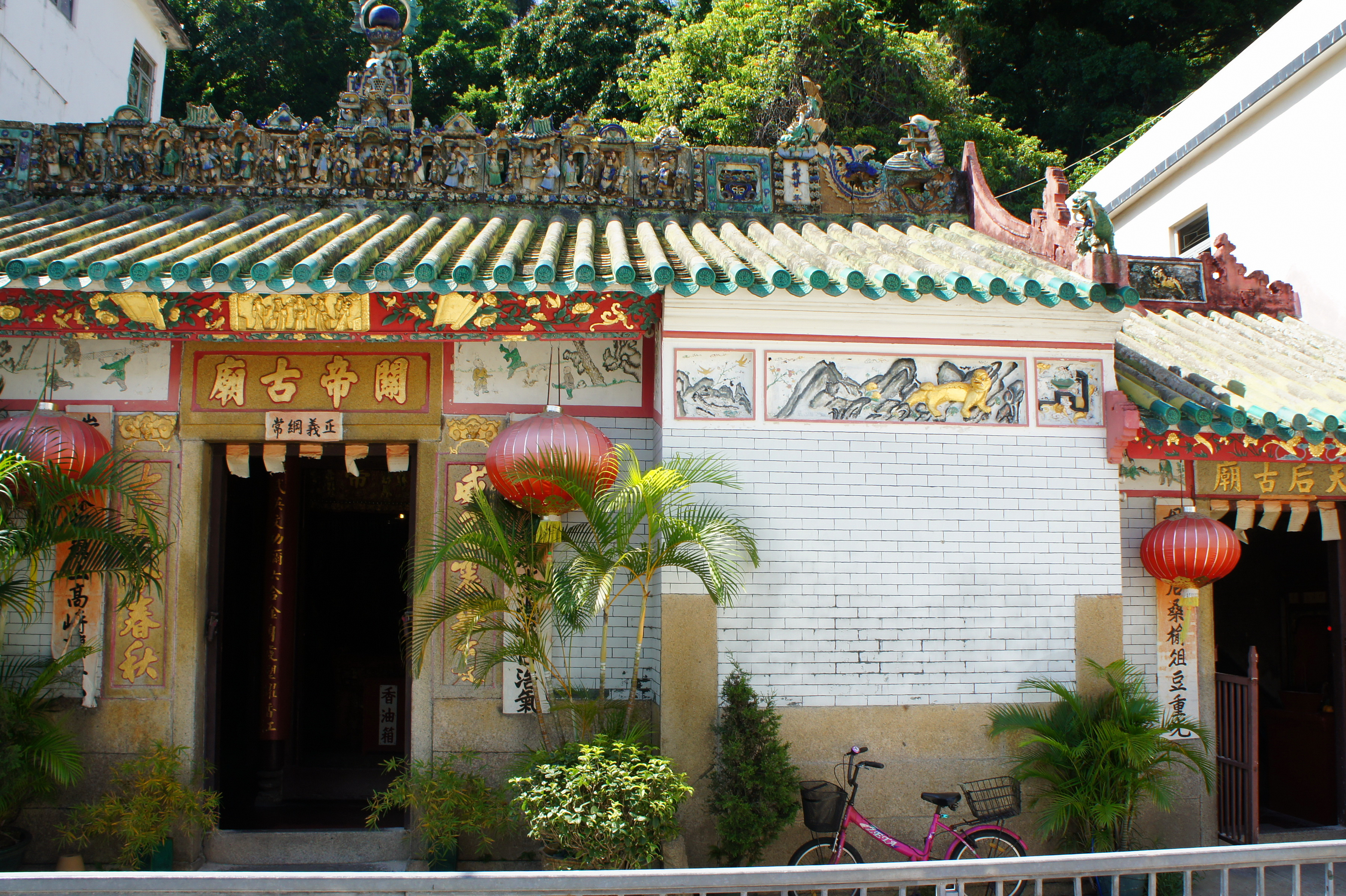 Kwan Tai Temple, Tai O, Hong Kong.